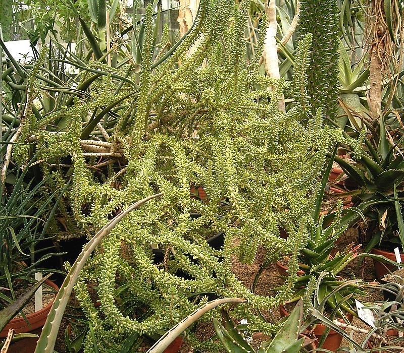 Portulacaria namaquensis, previously Ceraria namaquensis — Namaqua porkbush, Namaqua portulacaria. Native to deserts of Namibia and South Africa.